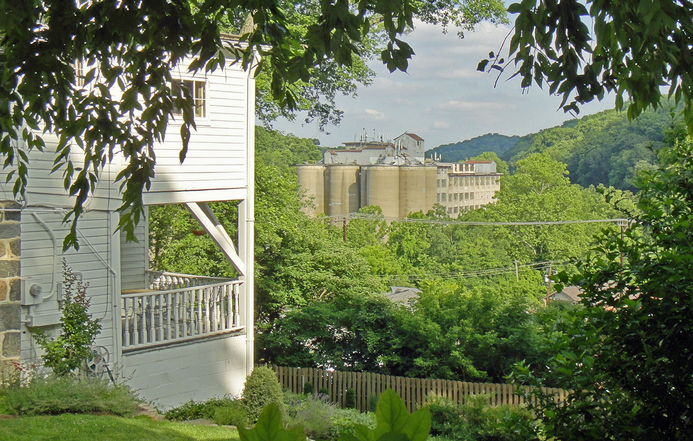 Looking downhill at the mill. Old mill town on the Patapsco River, seat of Howard County, and destination of America's first railroad.